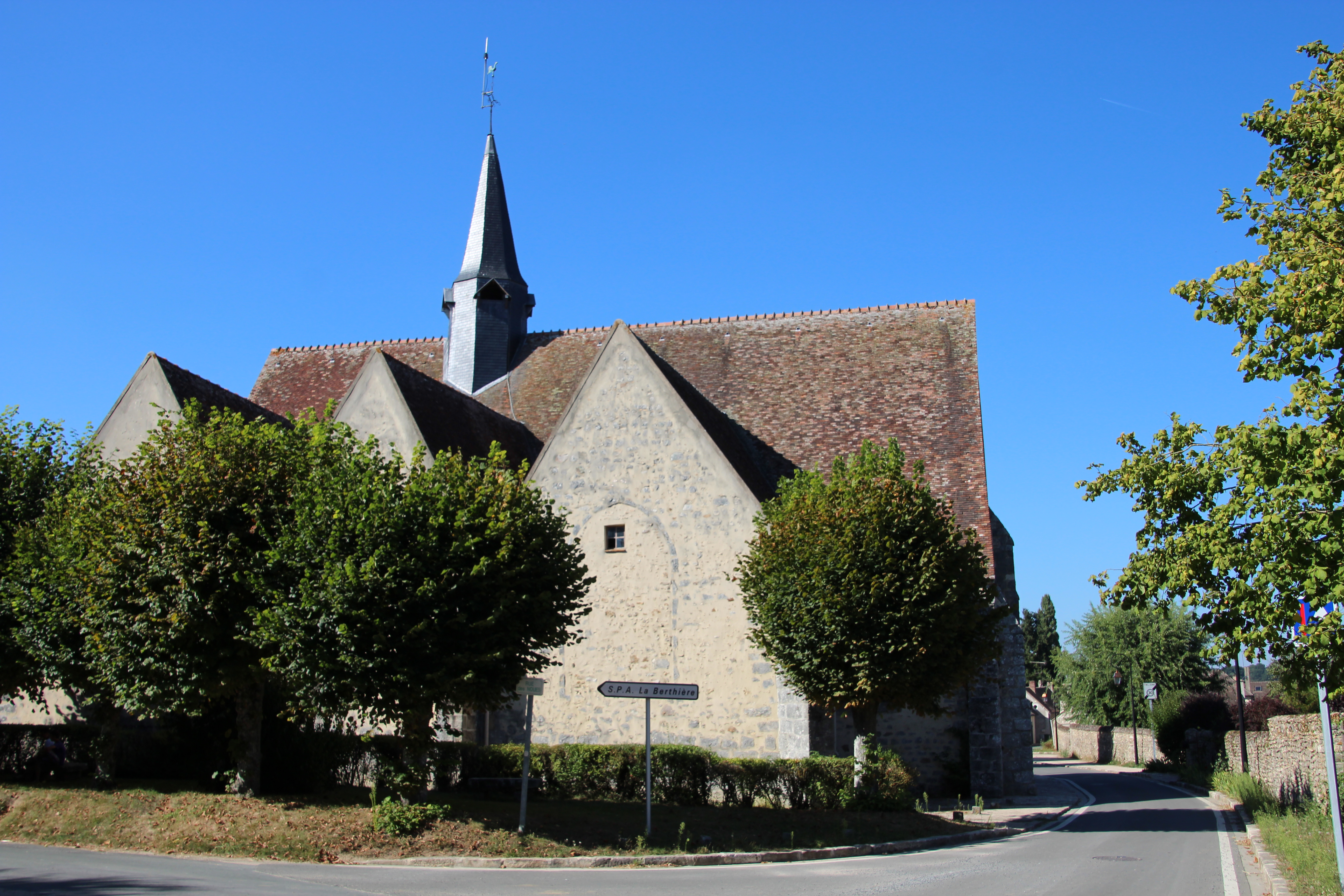 Saint-Germain-d'Auxerre church of Hermeray, France.